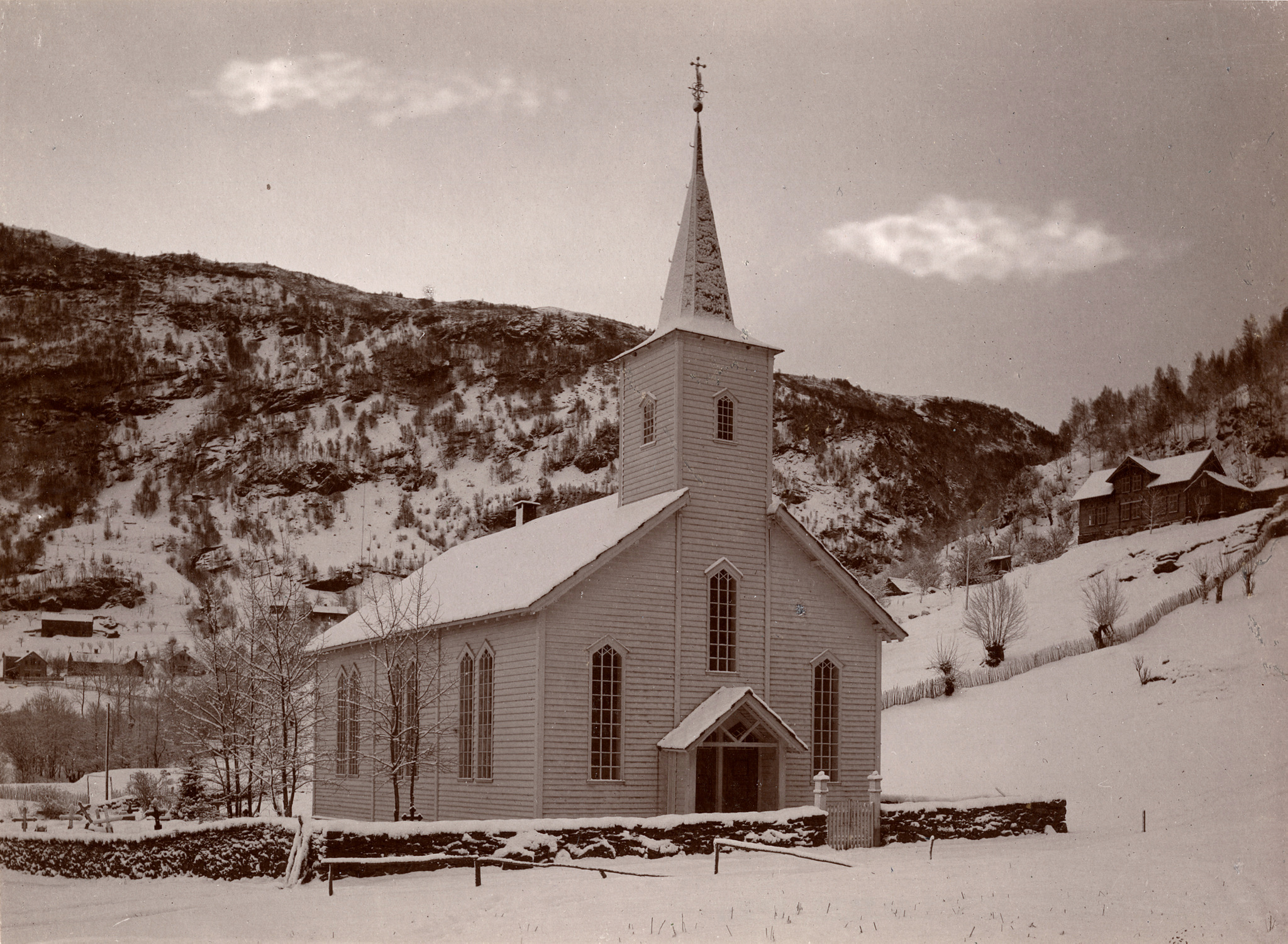 Fusa kirke fra 1861 (ark. Frederik Hannibald Stockfleth). 11. januar 1959 brant kirken ned til grunnen. Foto: Christian Christensen Thomhav, fra Kulturminnebilder.no.